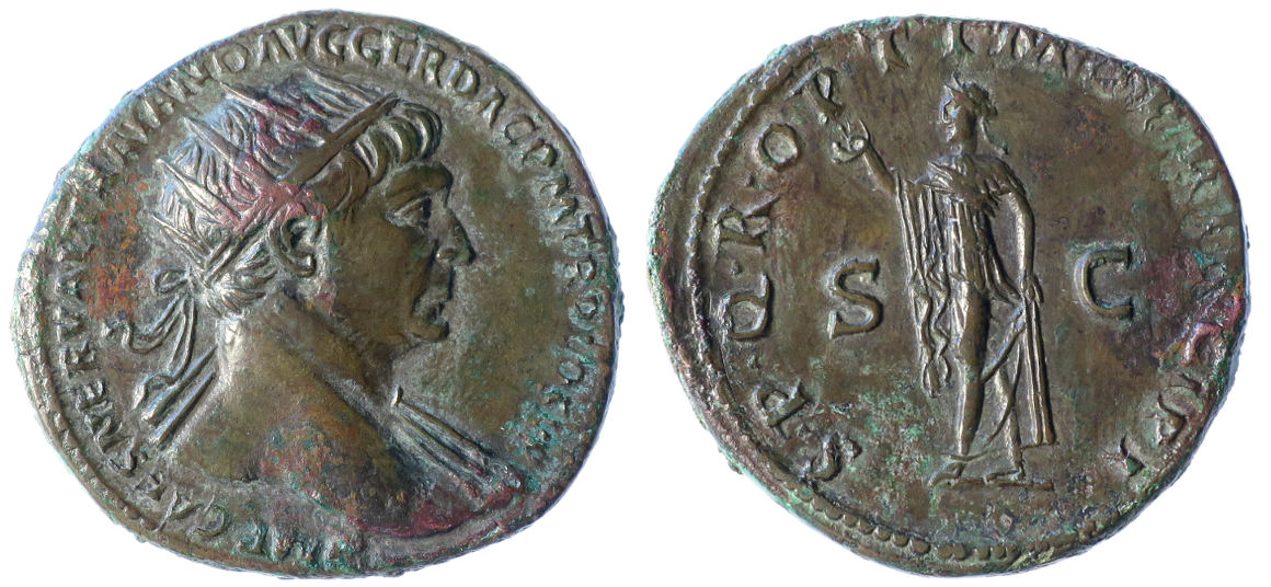 Dupondius of Trajan dated c. 103 AD. Spes on the reverse. References: RIC II 520; BMCRE 895; Cohen 461